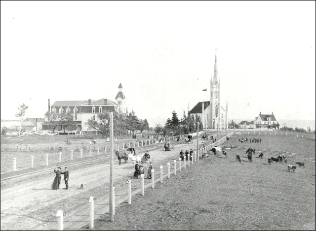 Bouctouche, New Brunswick.